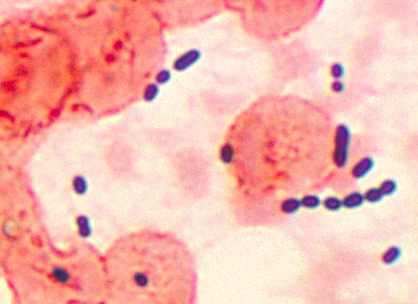 This photomicrograph reveals cocci-shaped Enterococcus sp. bacteria taken from a pneumonia patient. Enterococcus sp. is a common, gram-positive bacterium that can normally be found in the bowel and female genital tract. These bacteria can be spread by fecal-oral transmission, contact with infected body fluids or contact with contaminated surfaces.